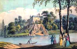 Castle Doubí - Karlovy Vary